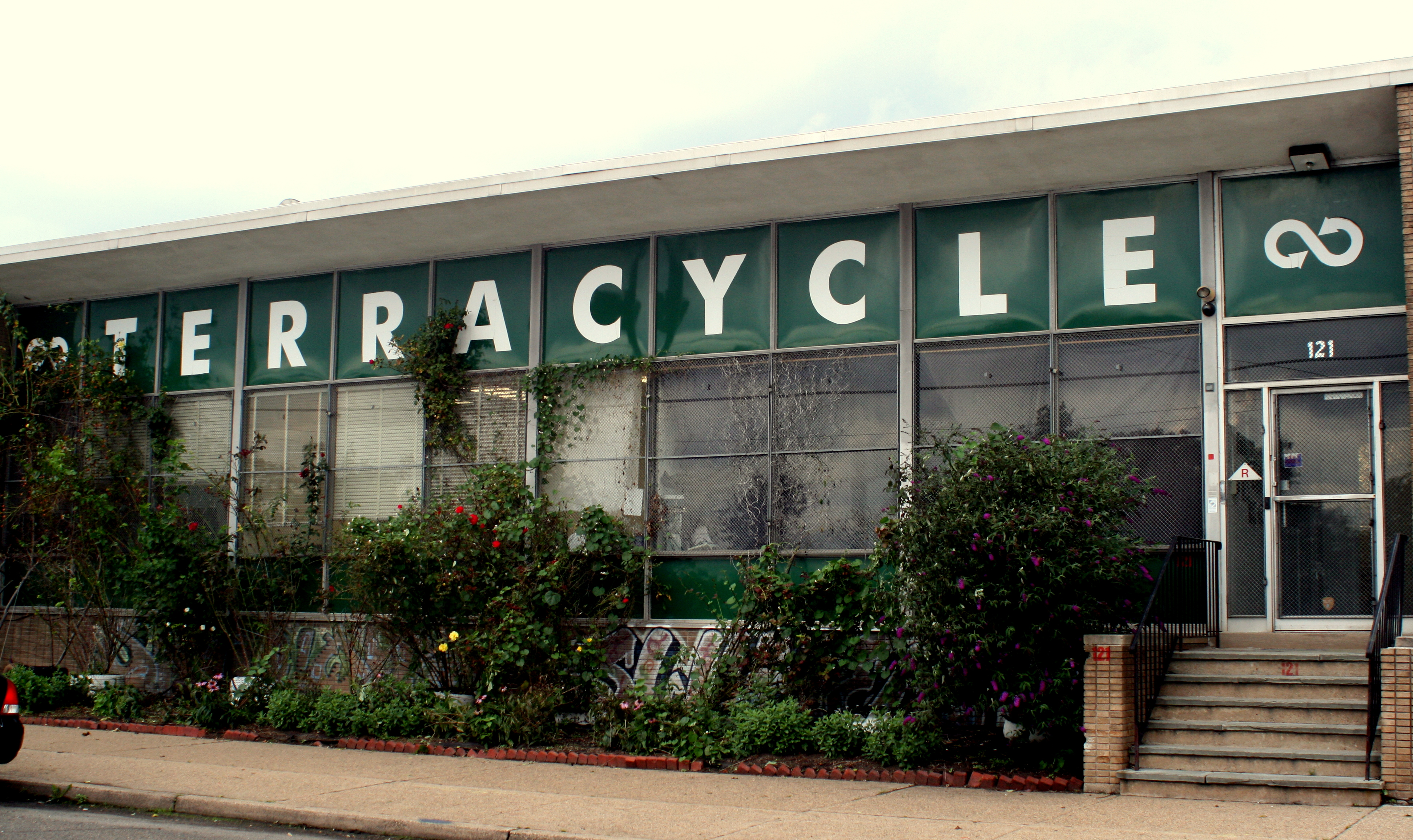 TerraCycle Photo